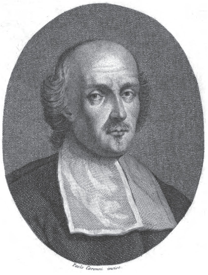 Portrait of Carlo Roberto Dati (Firenze, 12 ottobre 1619 – Firenze, 1° gennaio 1676), Italian academician, scientist and philologist, from Paolo Caronni (1779-1842)